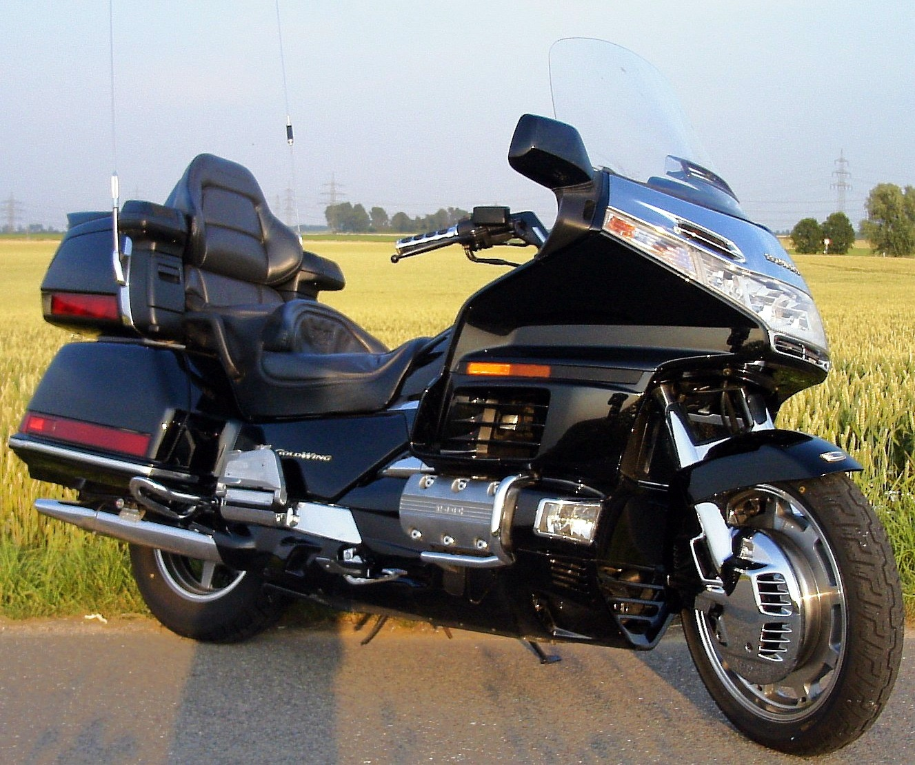 Honda Goldwing GL 1500 SE-US SC22 1998 dingwing wingo